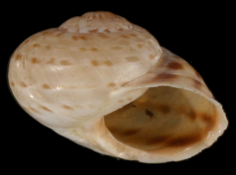 Photo of apertural view of the shell of Allognathus graellsianus. Locality: Spain: Mallorca, Sierra del Norte. Date: before 1960.